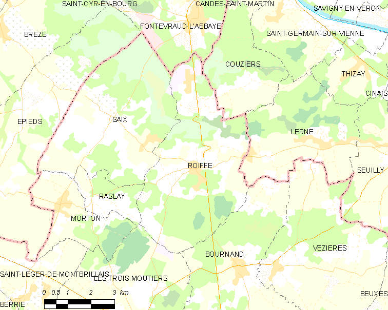 Map of French municipality Roiffé